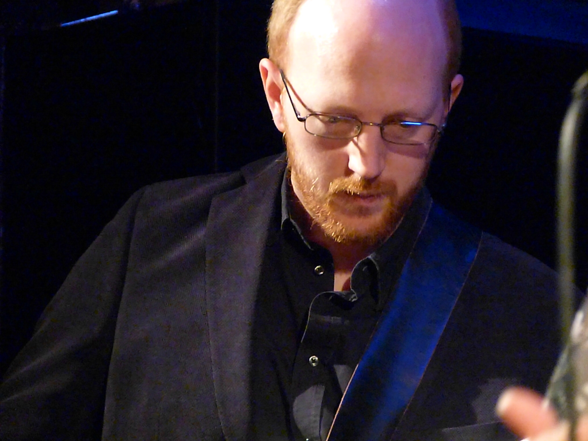 Martin Schulte (g) in concert with Matthew Halpin (s), Nils Tegen (dr), David Helm (b), and Veronika Morscher (voc) at the ARTheater, Cologne, Germany, November 3rd, 2015